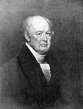 From the U.S. Senate historical office